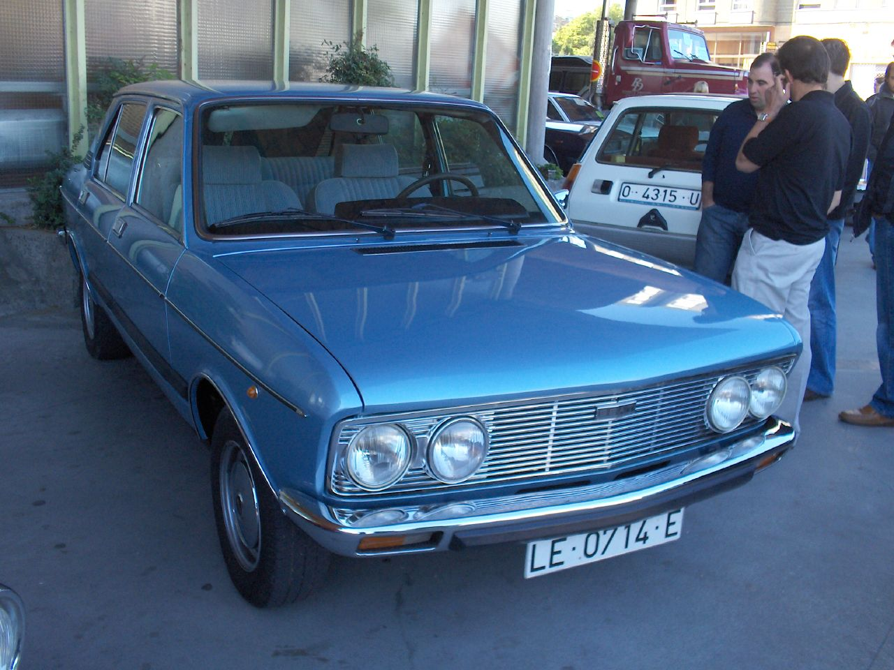 SEAT 132 front